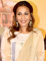 Aishwarya R. Dhanush in 2019